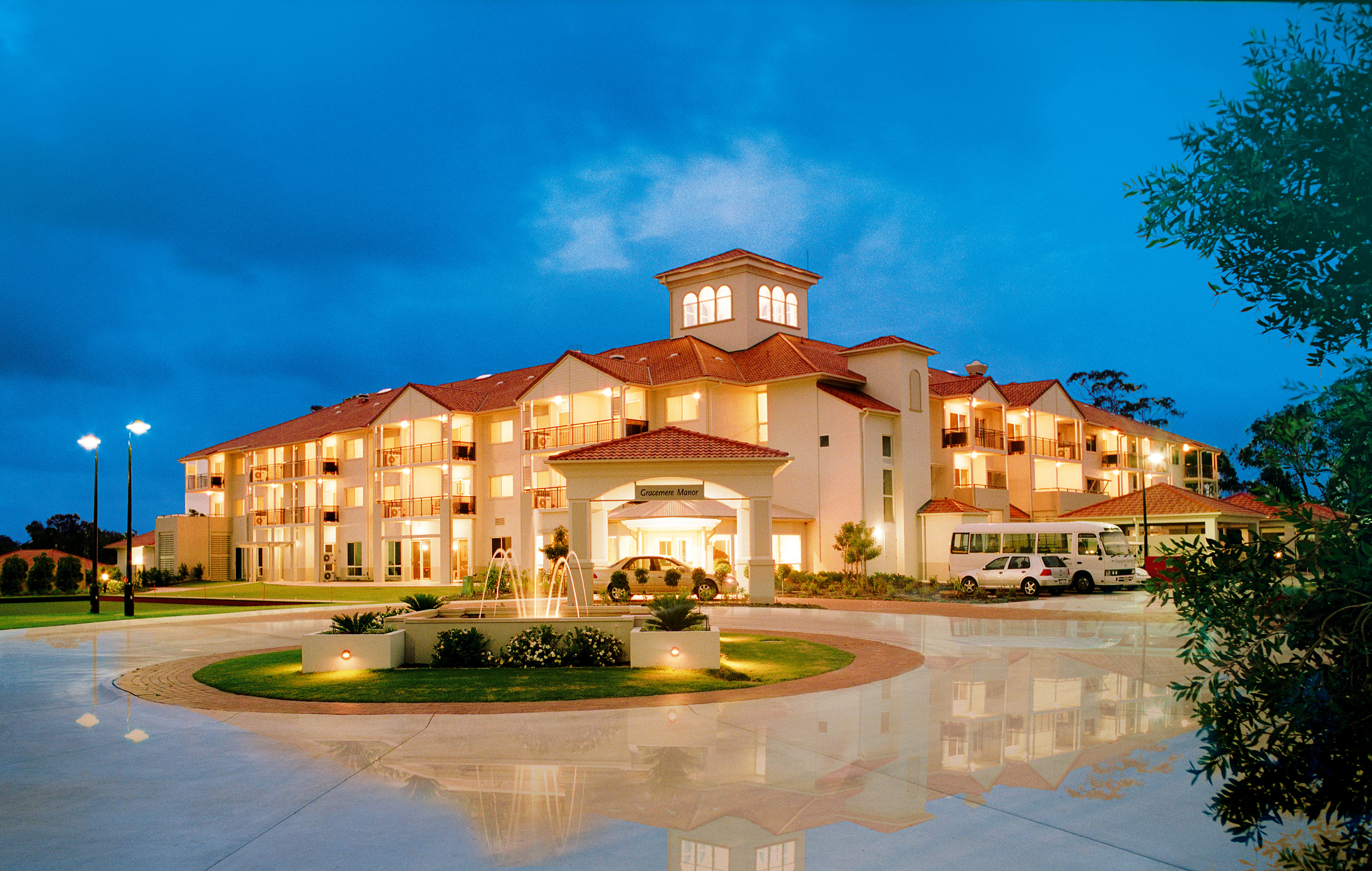 Peregian Springs Country Club